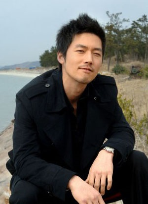 Jung hyuk